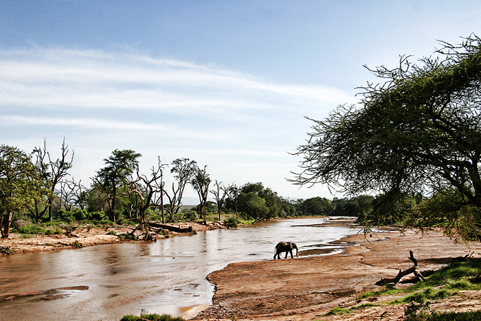 Elephant crossing a river,Kenya